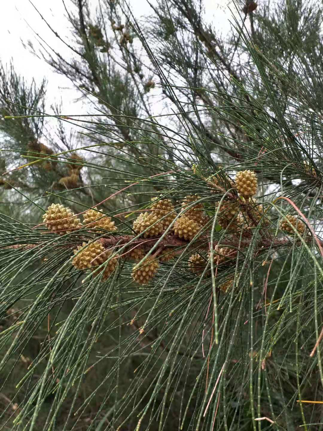 Fruits of Casuarina equisetifolia. Northeast Coast National Scenic Area, Taiwan.